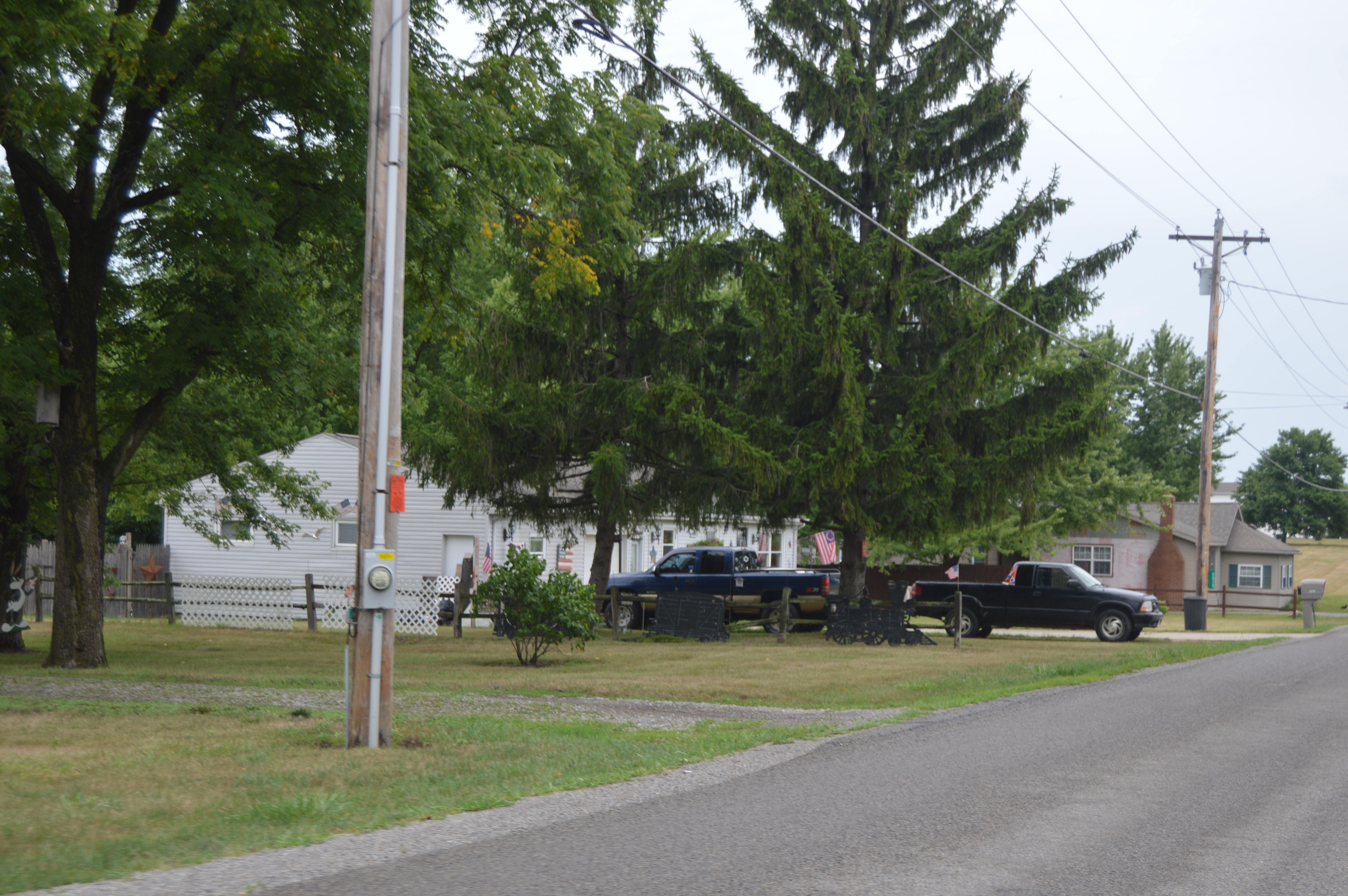 Houses on the western side of County Road 39, just north of the State Route 274 intersection, at the old crossroads community of Cherokee, Ohio, United States.